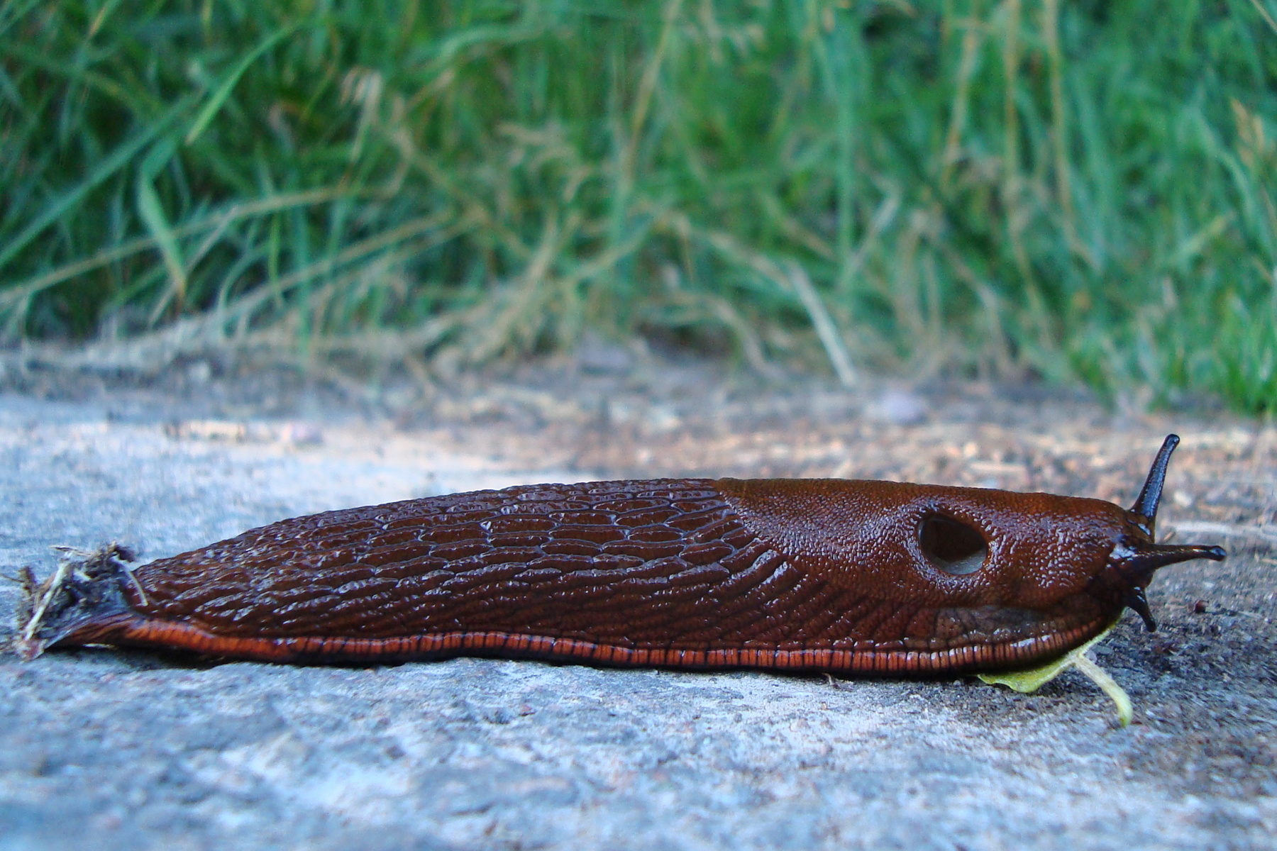 Most likely an Arion rufus, but could be A. vulgaris or A. ater. Säterdalen, Sweden. Arion rufus, determined 04 June 2011 by Francisco Welter-Schultes. A. ater would be black, A. vulgaris usually has not such a brightly red foot fringe.